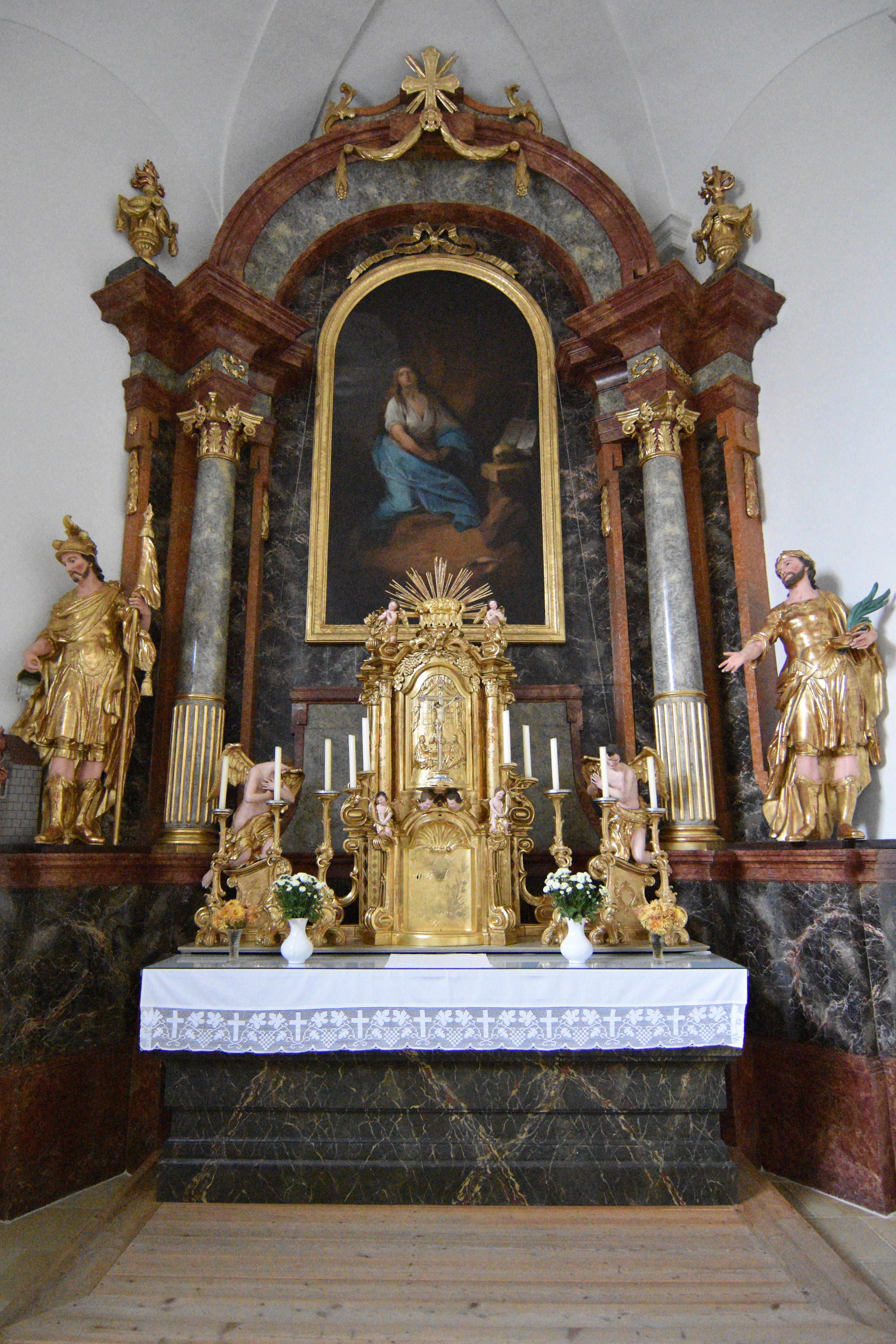 Mary Magdalene Church (Sankt Magdalena am Lemberg) - Interior